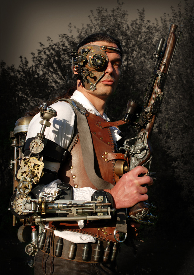 complete selfmade steampunk outfit, with leather vest, hevy gun, vambrace, copper-shoes, back pack, time machine, mask and victorian clothes...